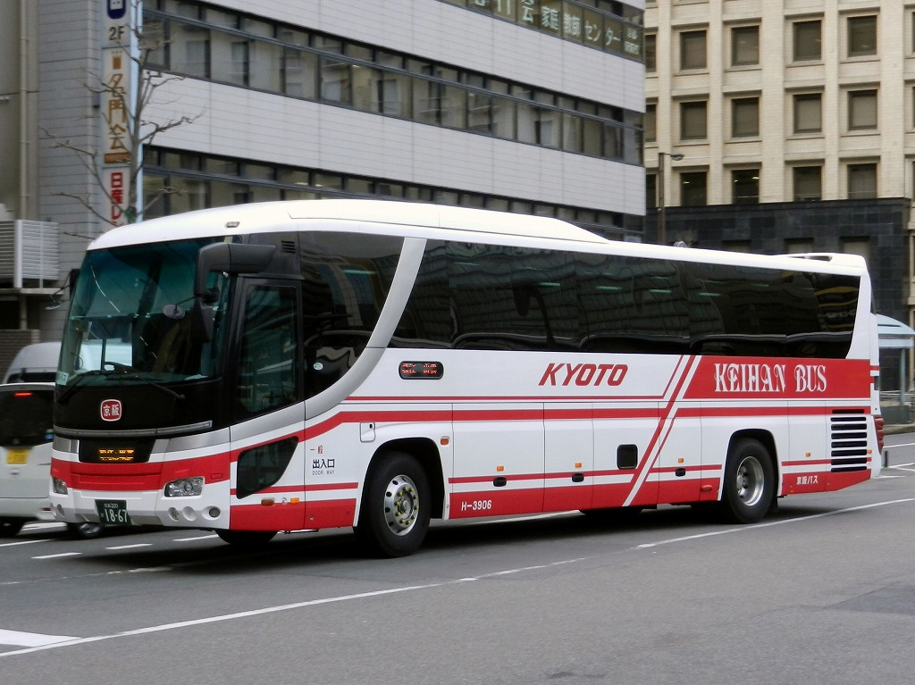 Keihan bus Hino S'elega (PKG-RU1ESAA)highwaybus "Izumo-Okuni"(Kyoto-Matsue,Izumo)